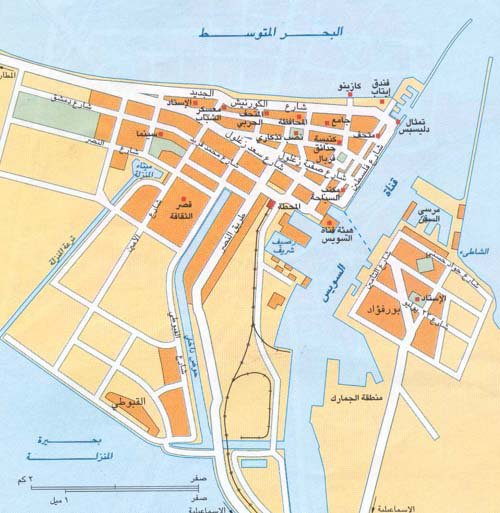 Port Said Map